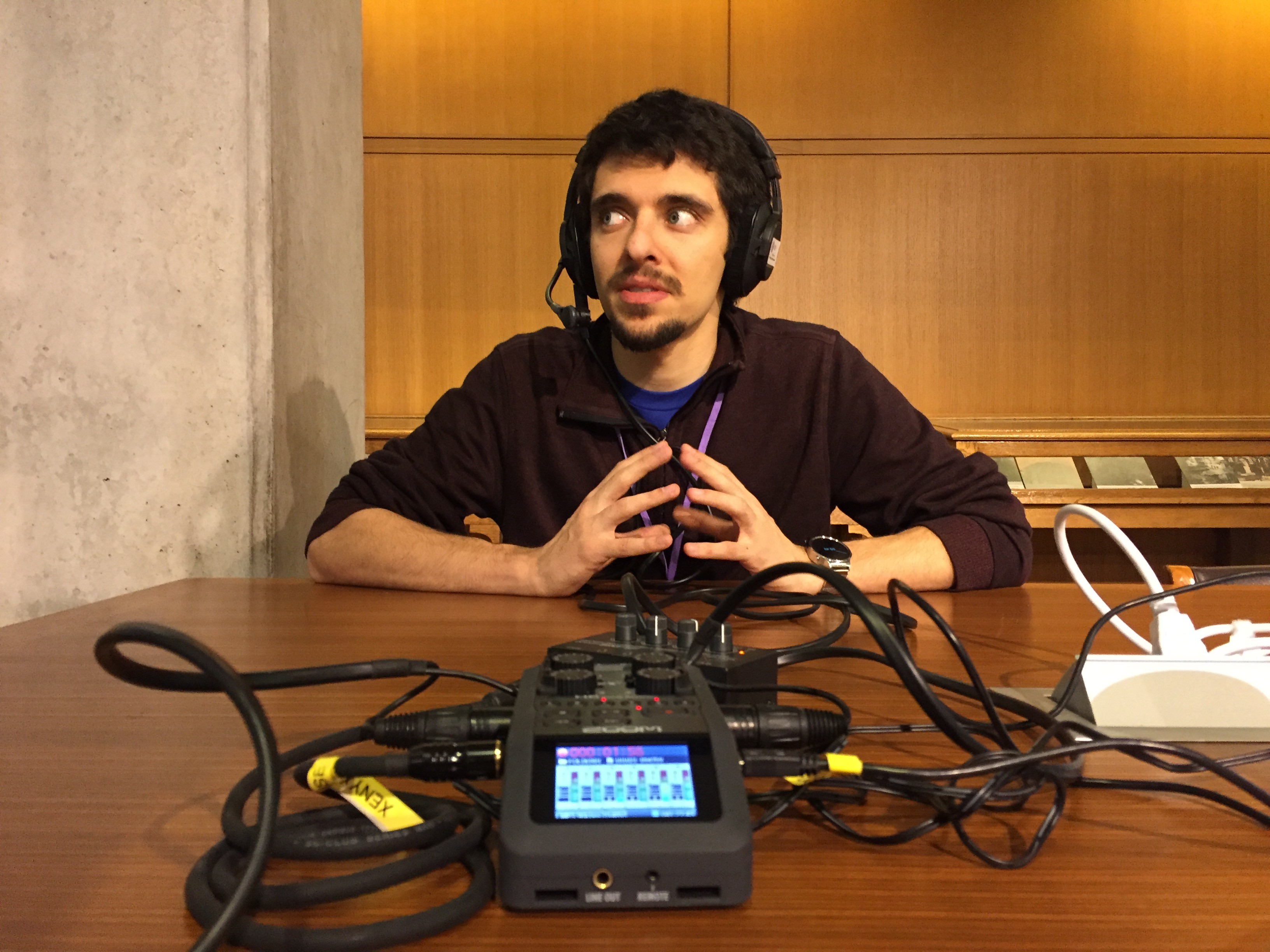 Kevin Payravi at WikiConference North America 2018 recording an episode for the podcast WikiJabber